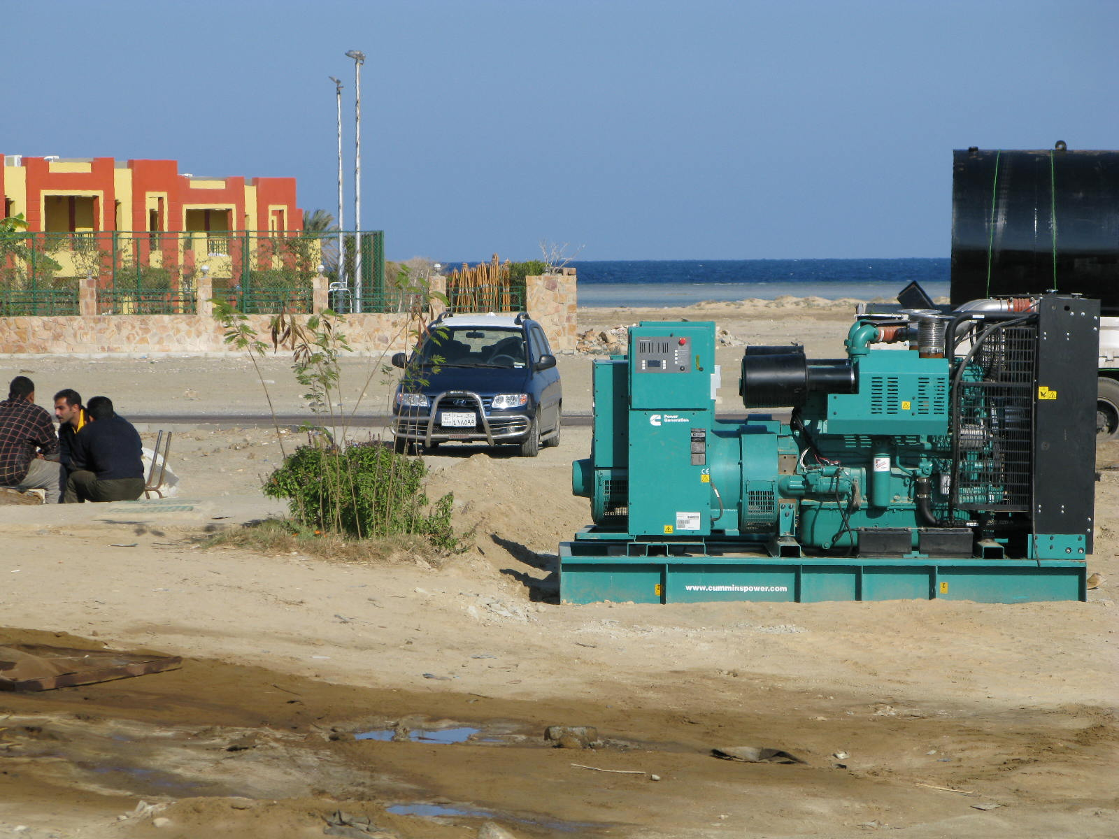 This is a 150 kW for tourists in Egypt. =